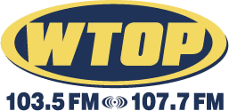 WTOP logo 2010